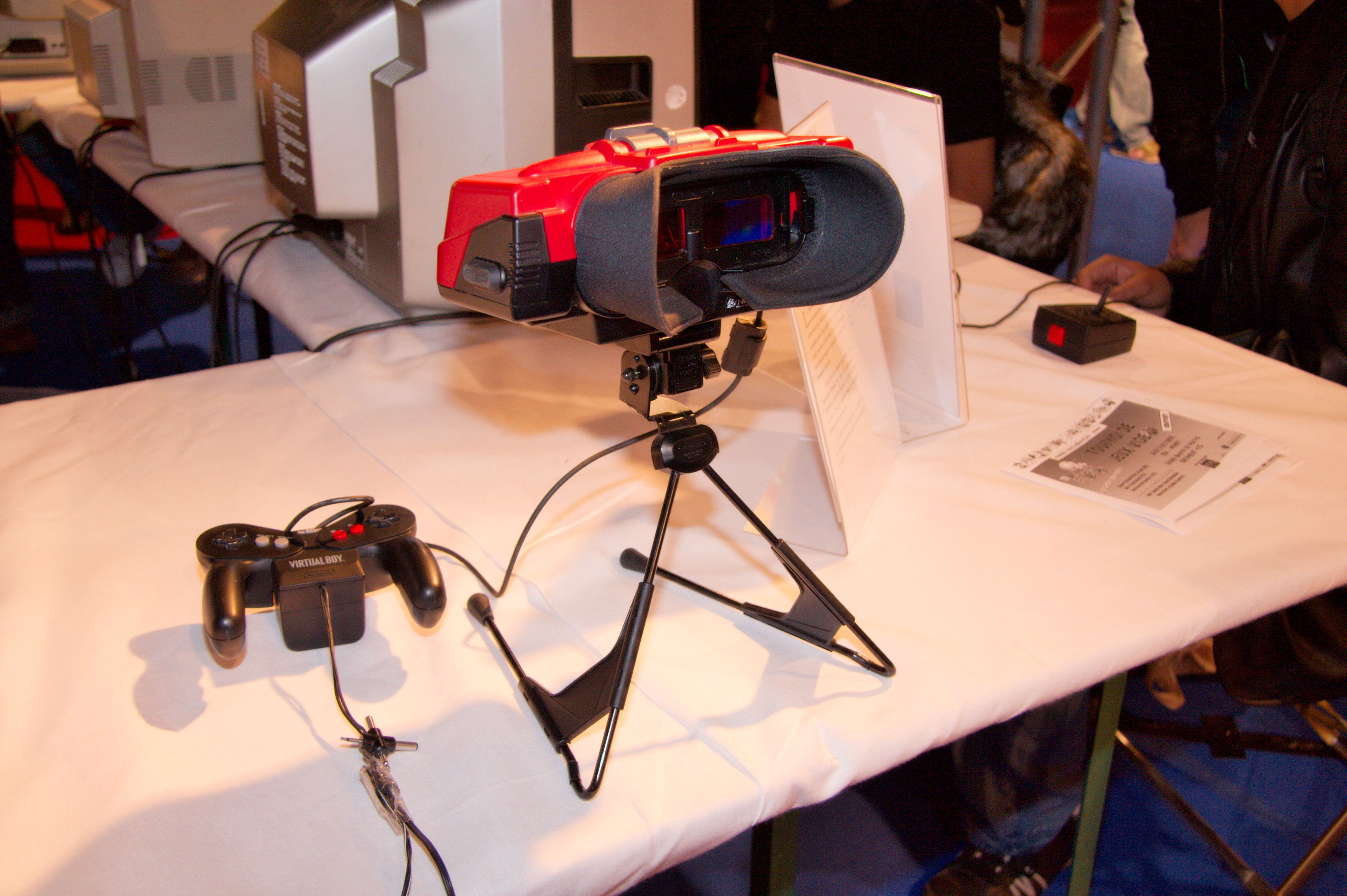 Festival du jeu vidéo 2008 (video game festival) (Paris, France).